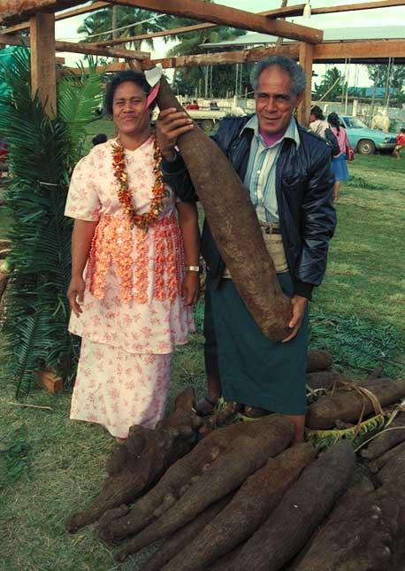 Tongan farmer showing off his prized yams.